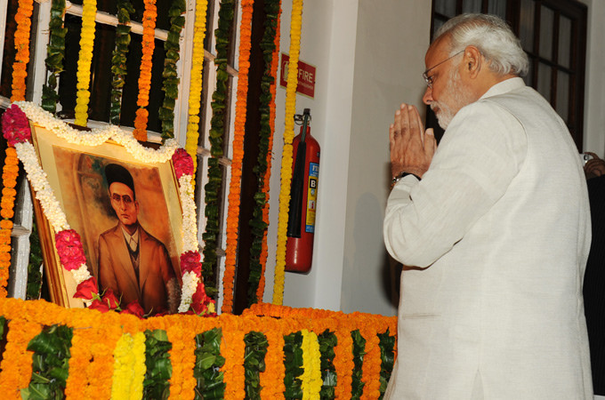 Narendra Modi pays tributes to Veer Savarkar at Parliament of India.